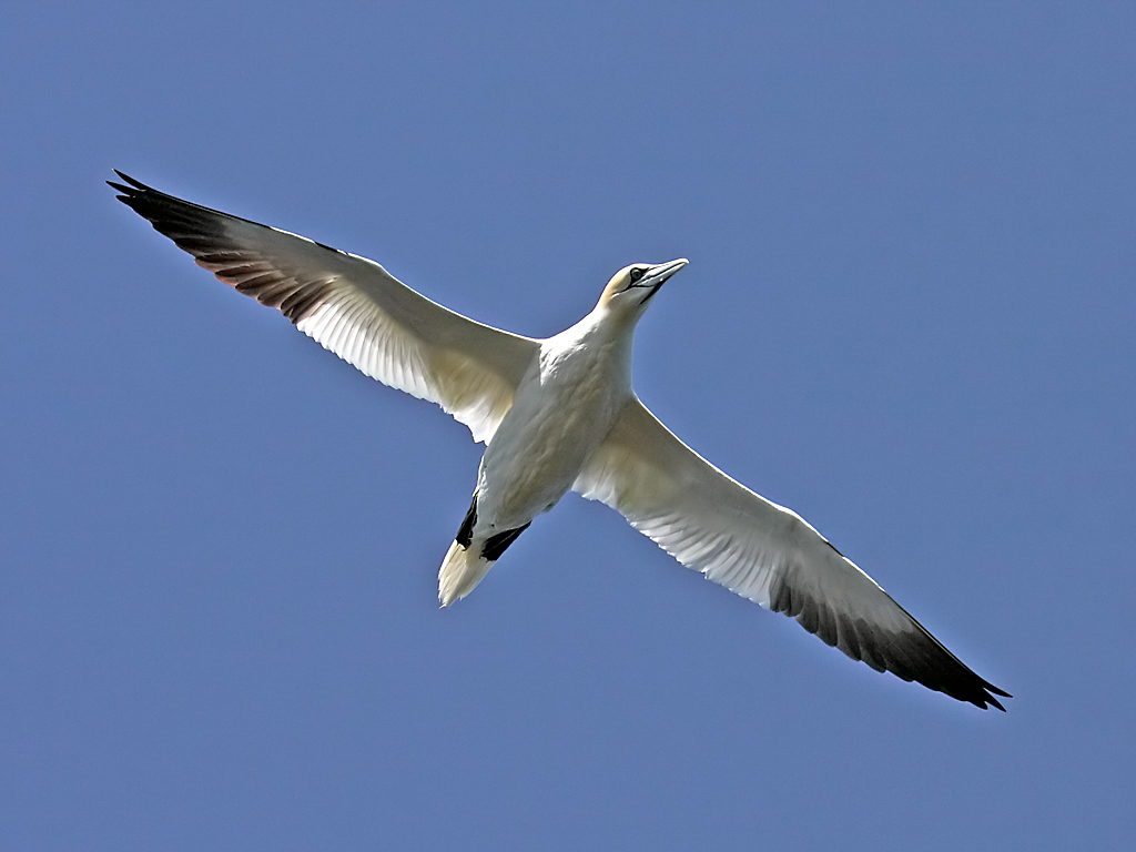 Northern Gannet